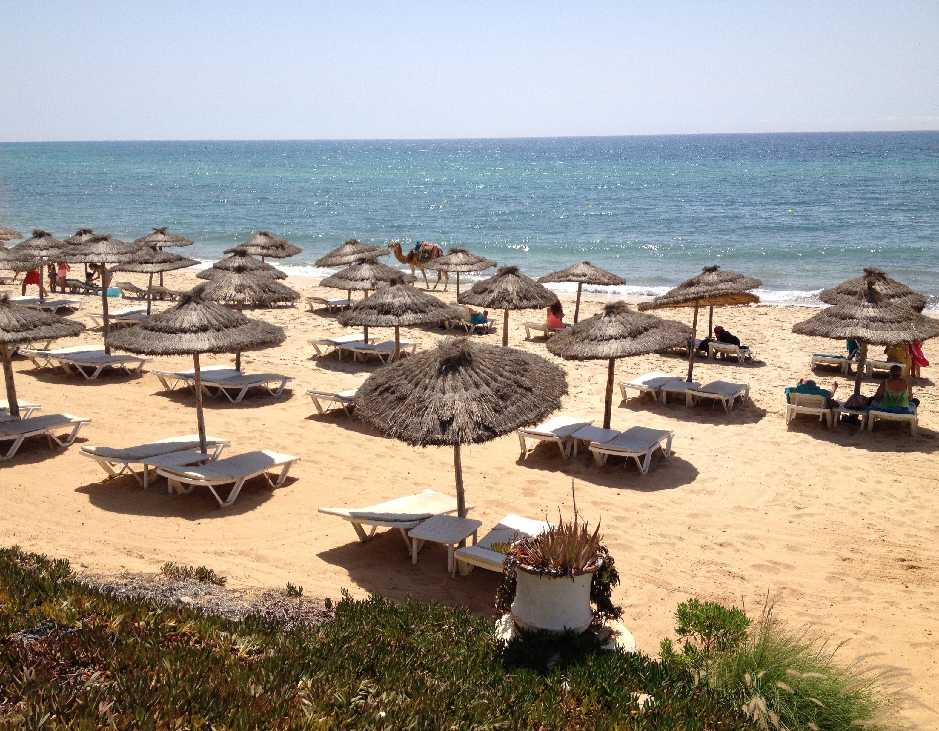 A beach in Hammamet, a tourist resort and major destination in the North West (Cap Bon) of the country, in a summer morning.